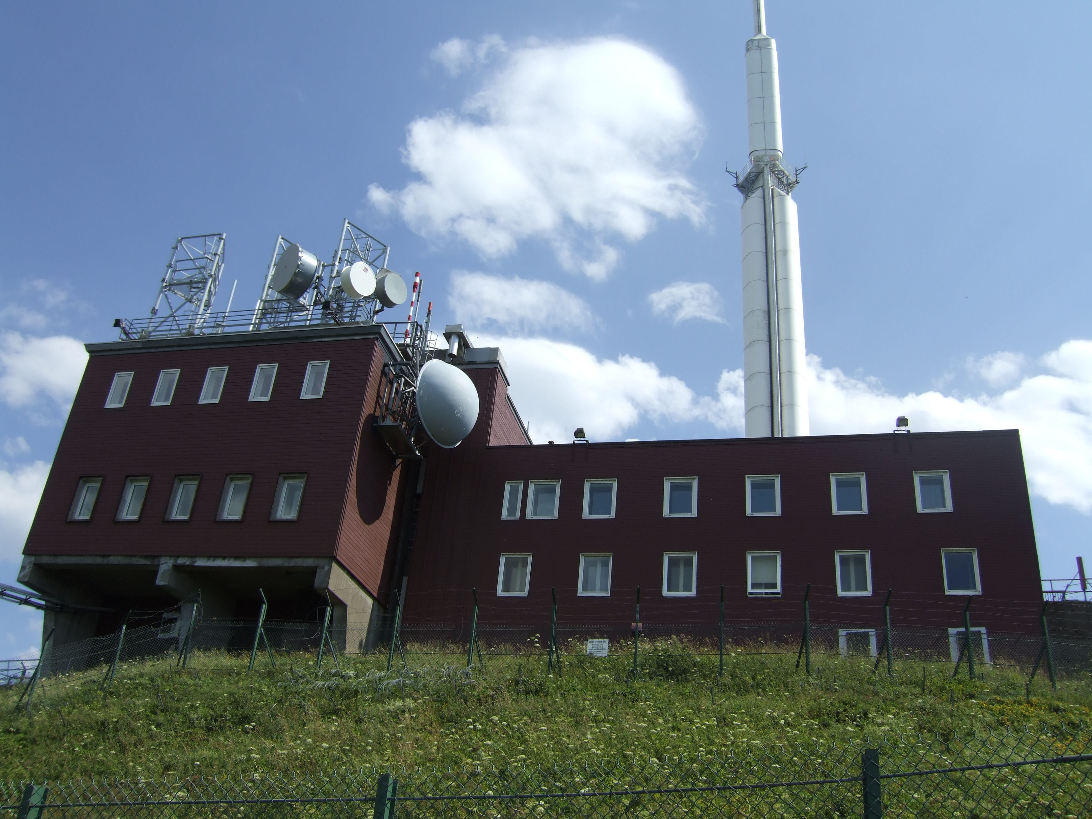 Meteo station on the Puy de Dome (France)